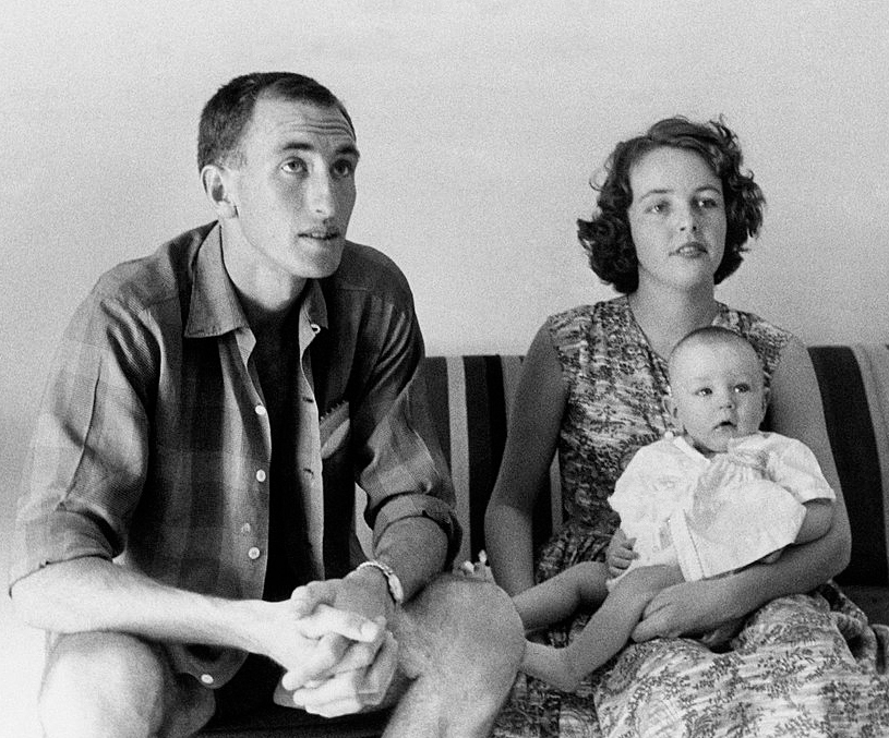 Herb Elliott with family in their flat in Europe